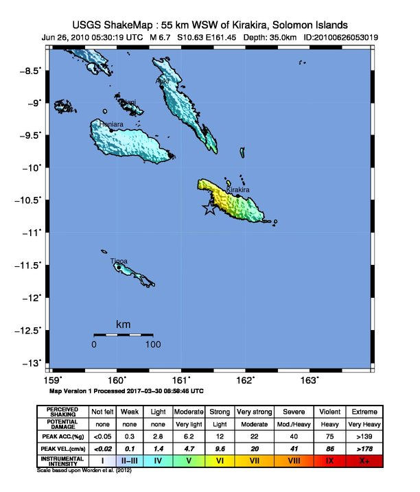 M 6.7 - Solomon Islands 2010-06-26 05:30:19 (UTC)